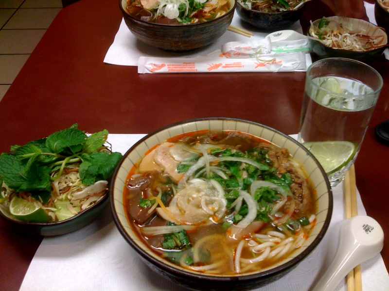 bun bo hue annam